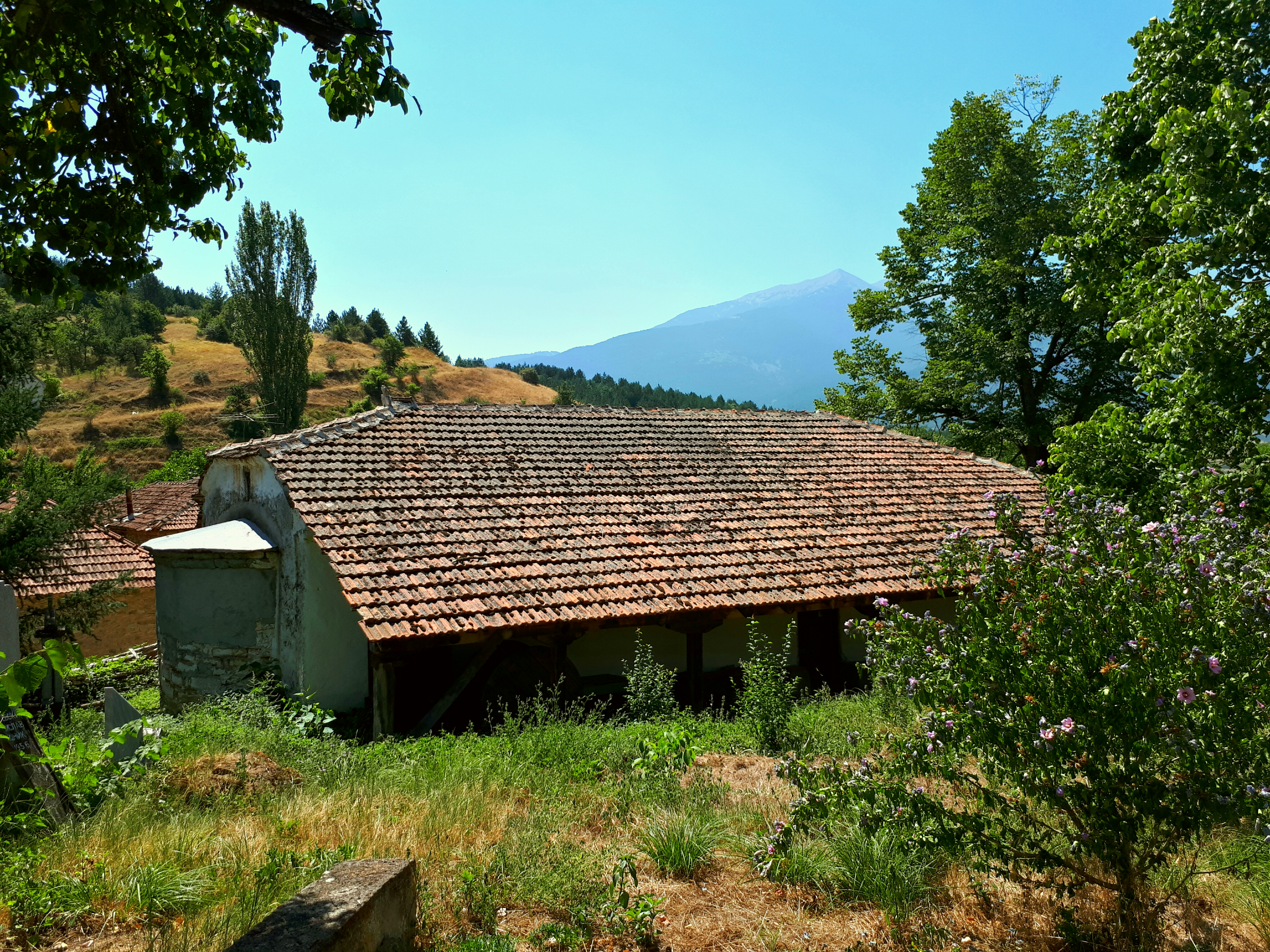 Part of the Veloexpedition in 2017